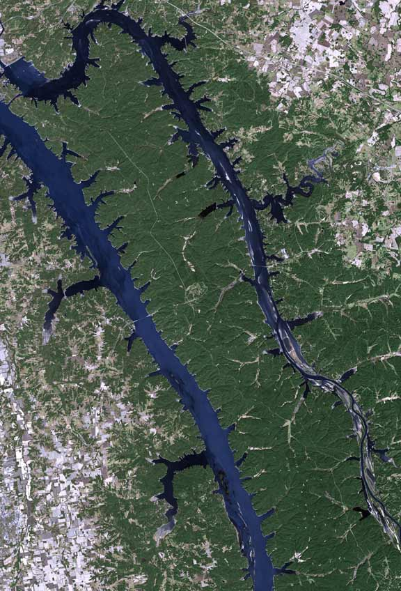 The raw satellite imagery shown in these images was obtain from NASA and/or the US Geological Survey. Post-processing and production by